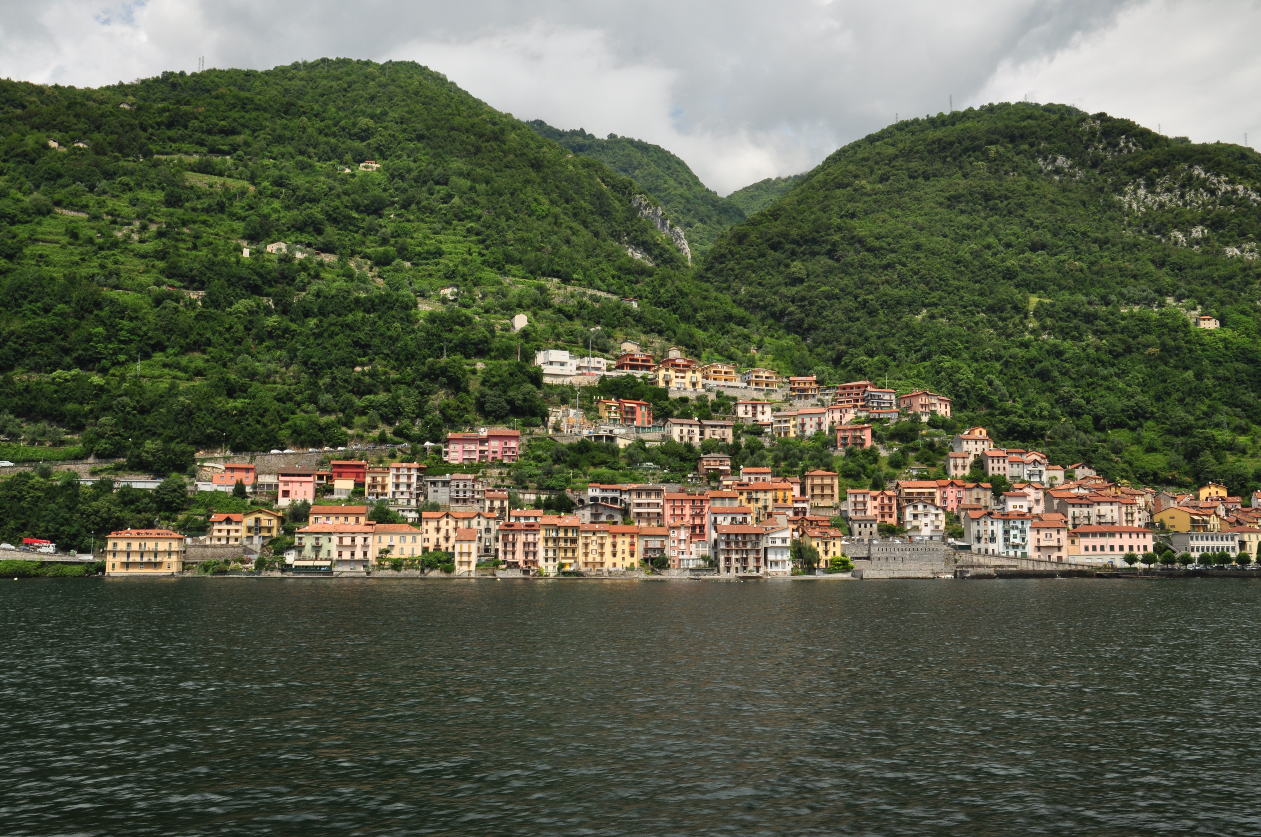 View from Como Lake of Colonno (CO), Italy